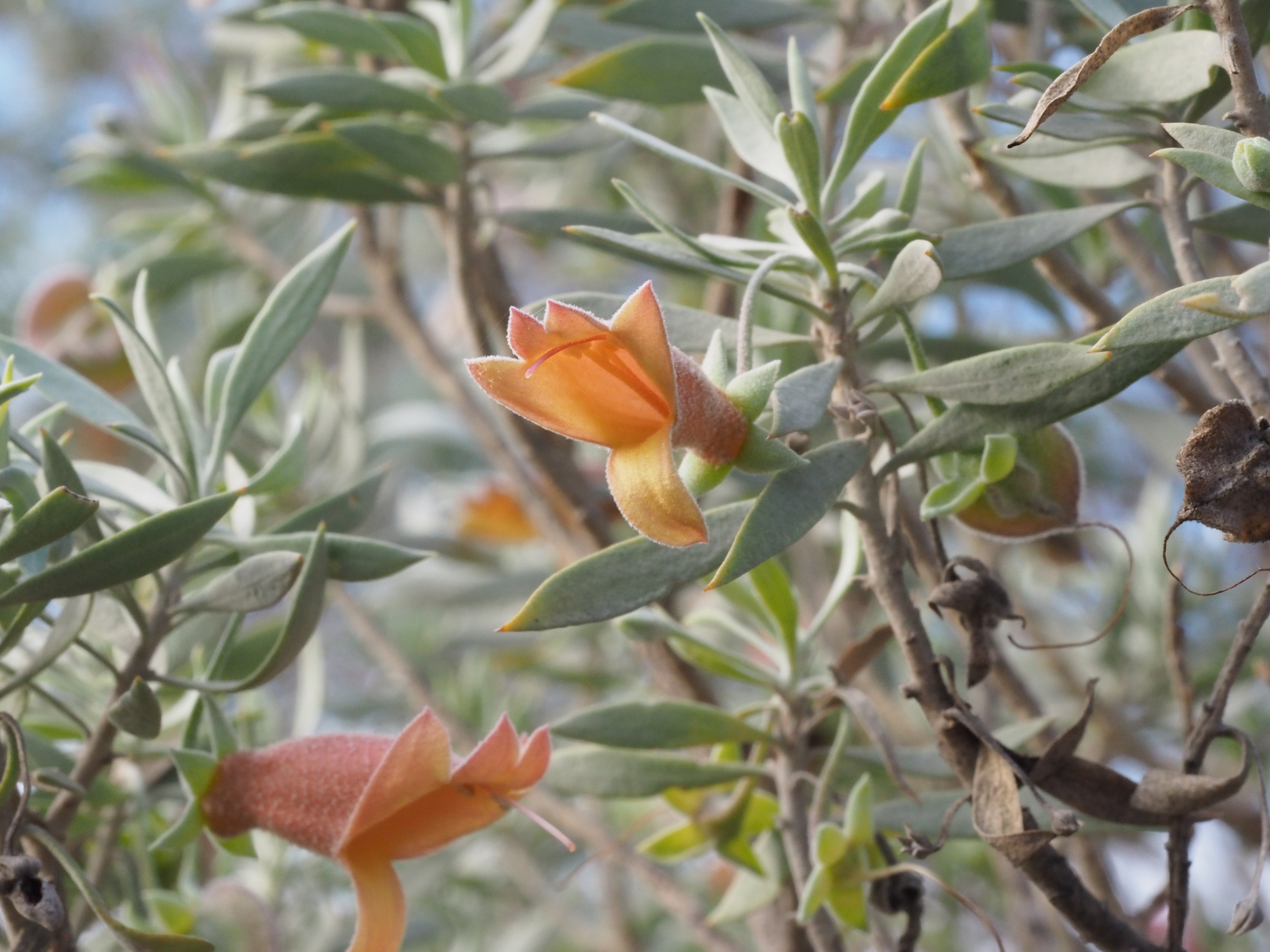 Eremophila pterocarpa pterocarpa growing 35km west of the overlander Roadhouse